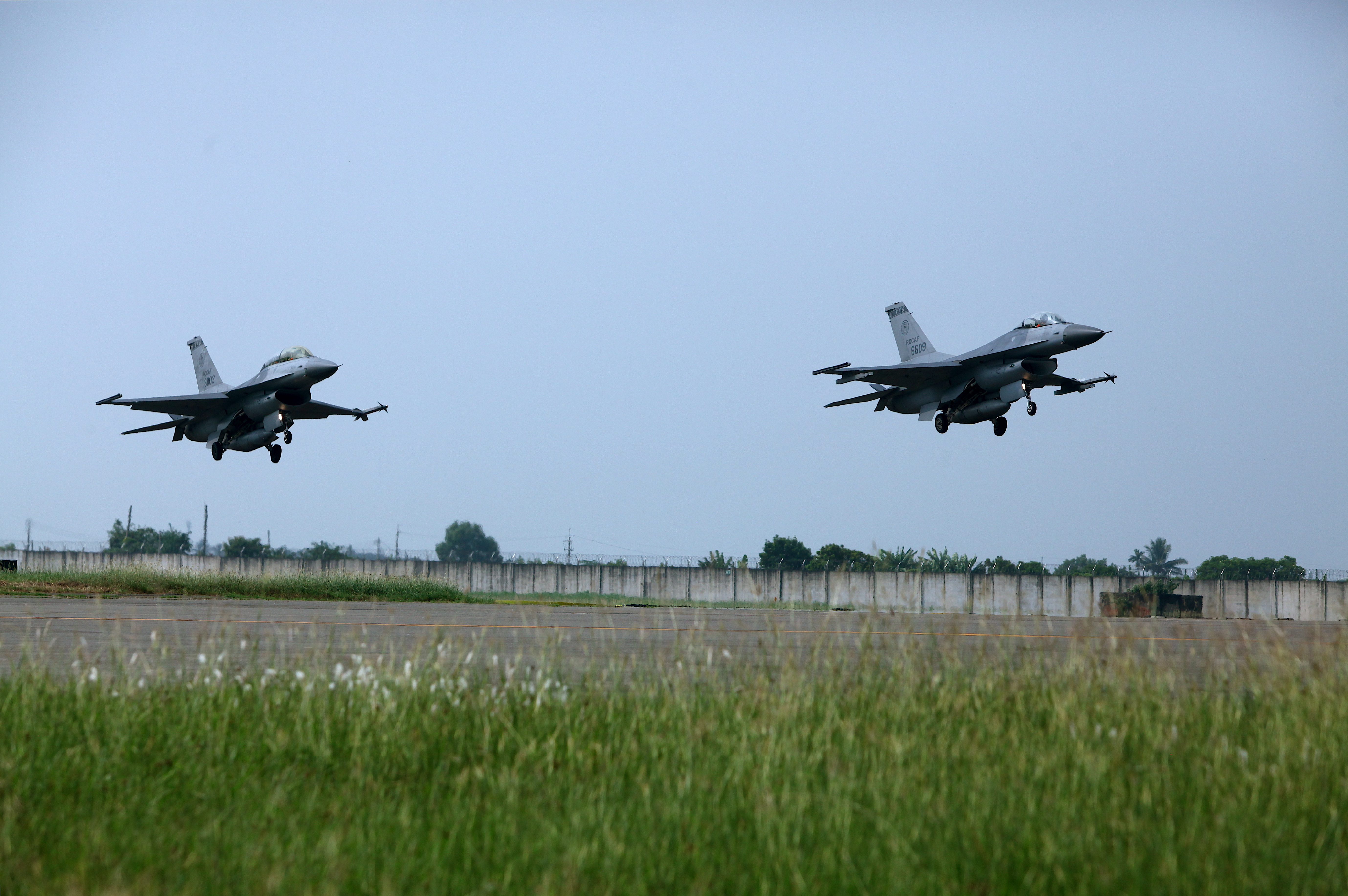 Taiwan's fleet of F-16s consist of older A/B Block 20 class fighter jets. The government had requested 66 newer F-16 C/D block 50/52 fighter aircraft. Instead the US has offered to upgrade the current planes.